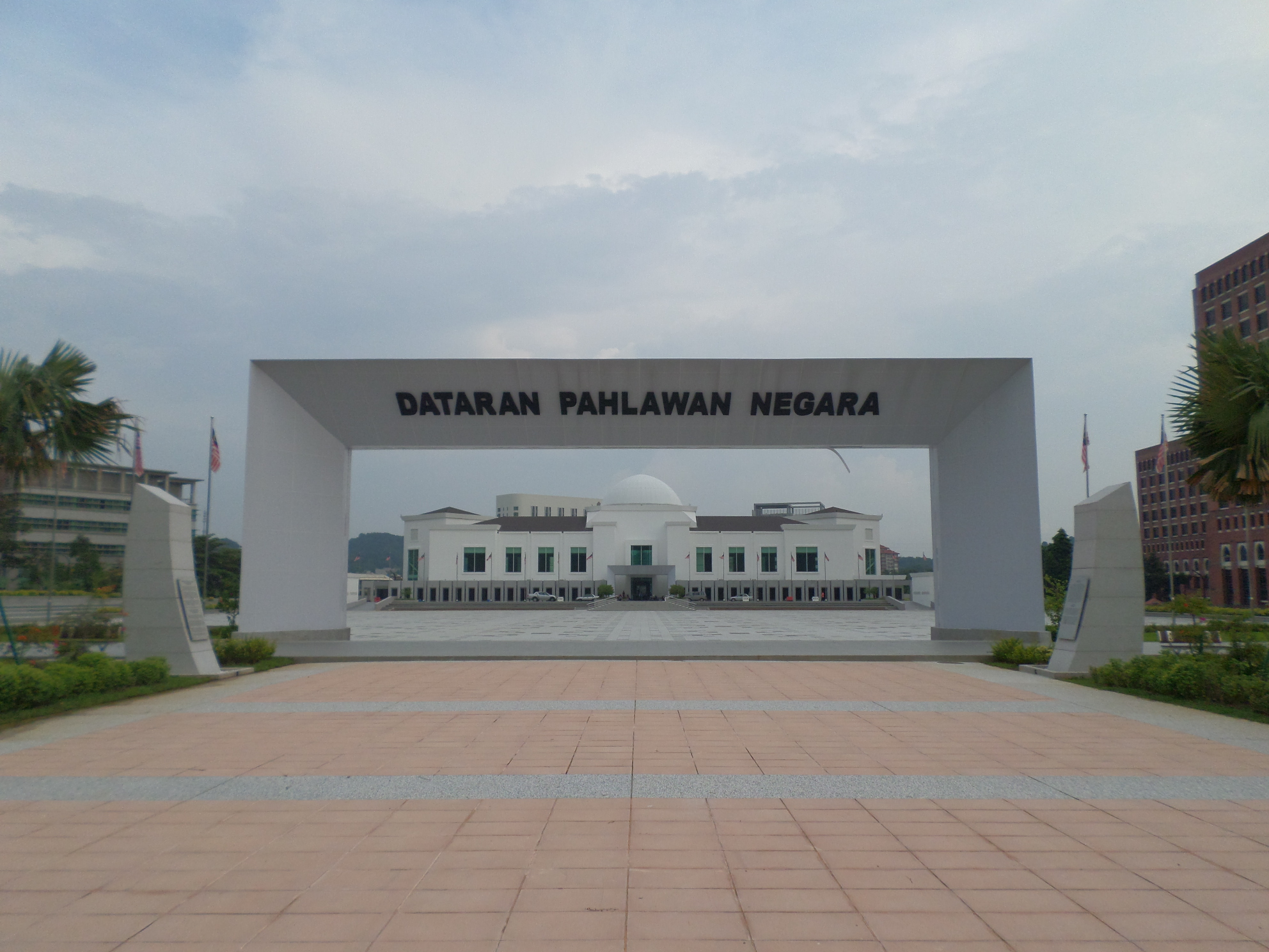 National Heroes Square, Precinct 1, Putrajaya, MalaysiaBahasa Melayu: Dataran Pahlawan Negara, Precint 1, Putrajaya, Malaysia